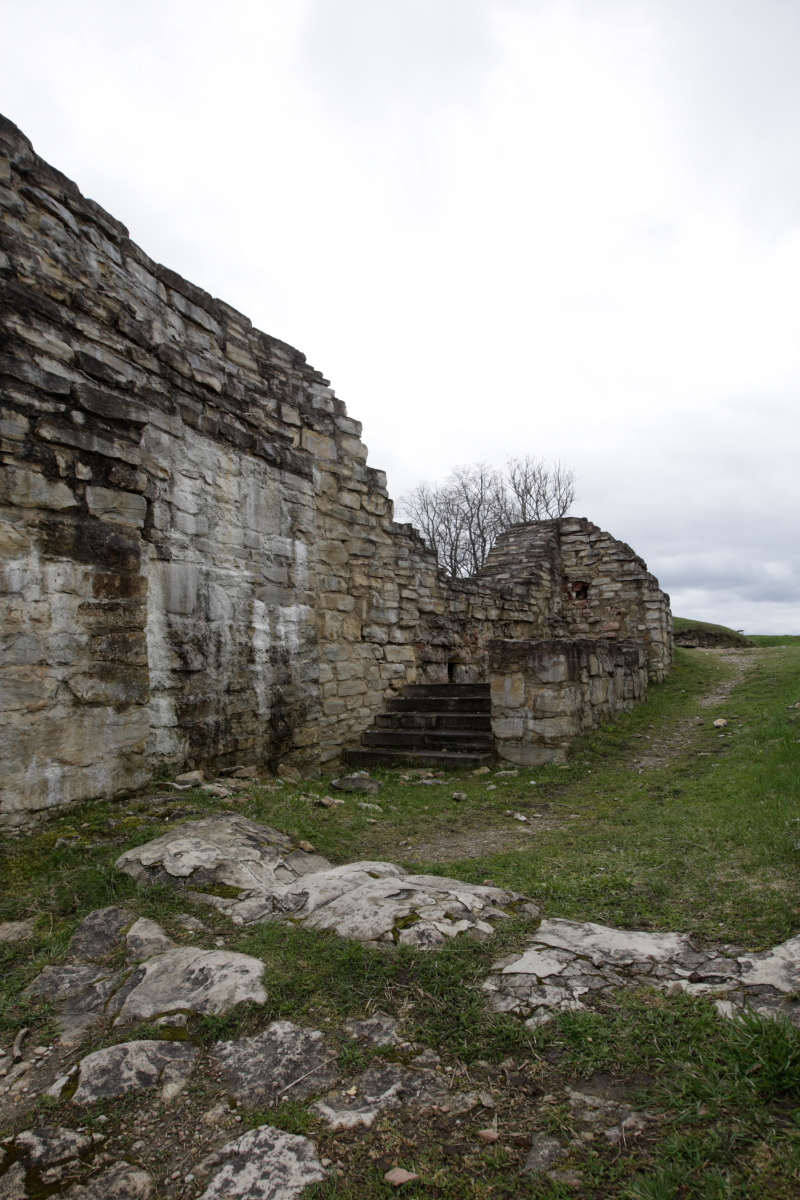 Lihula, Lääne County, Estonia